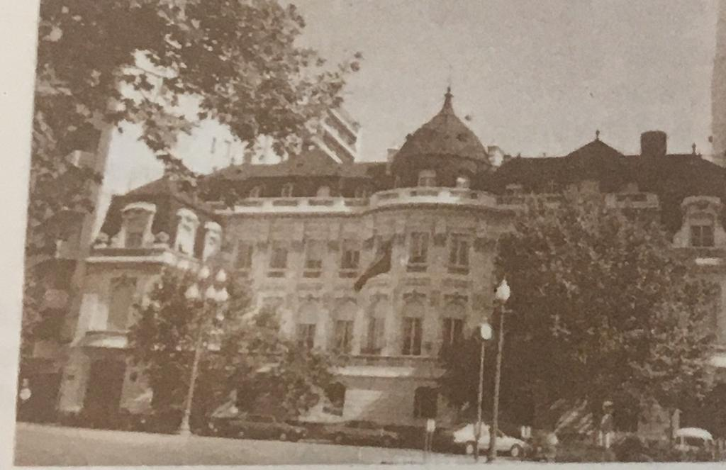 Palacio Pereda en Buenos Aires